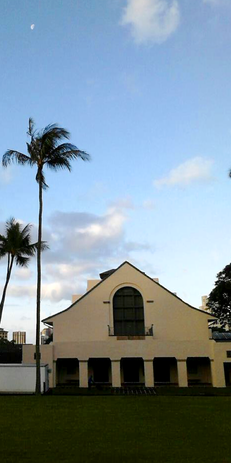 Dillingham Hall in morning light on Punahou School's campus